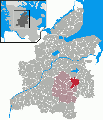 Locator maps of municipalities in Schleswig-Holstein - District Rendsburg-Eckernförde